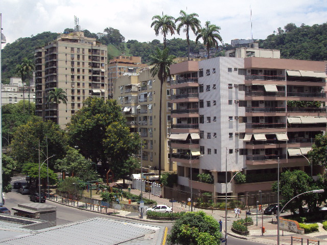 View of buildings in Laranjeiras neighborhood, Rio de Janeiro city, Brazil.